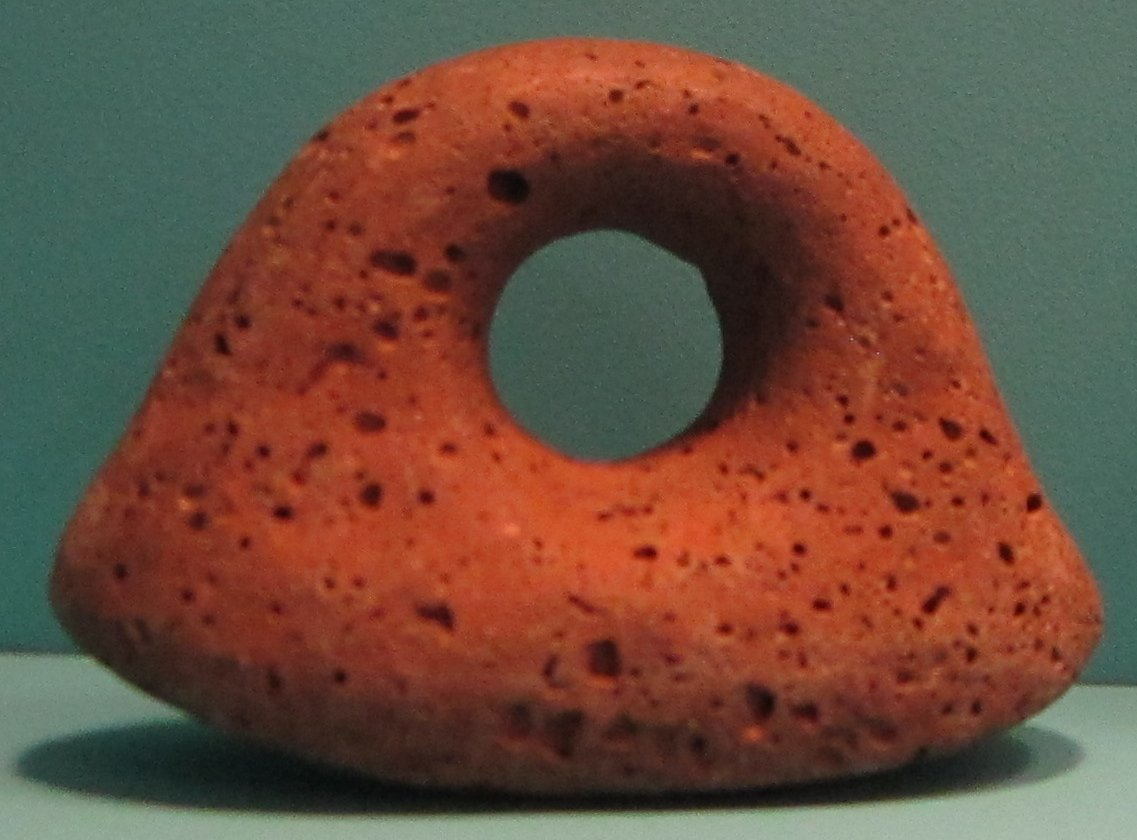 Poi pounder (pohaku ku'i poi), Hawaiian, 18th century or earlier, lava rock, Honolulu Museum of Art, accession 6201.1